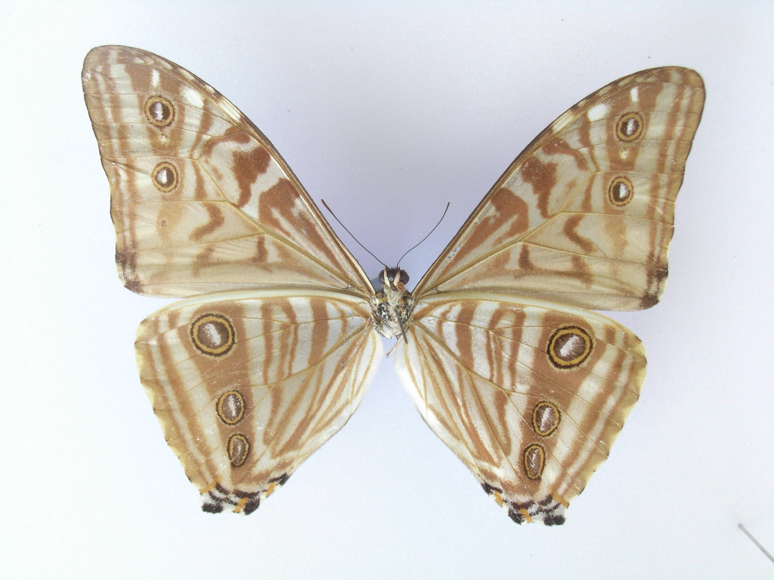 Morpho zephyritis Butler, 1873 Ex coll. Felix Stumpe